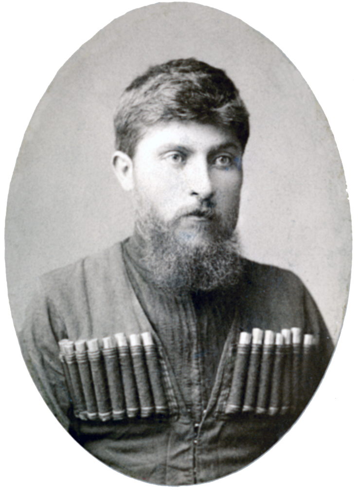 Cropped version of: File:ვაჟა-ფშაველა. ალექსანდრე როინაშვილი.jpg.